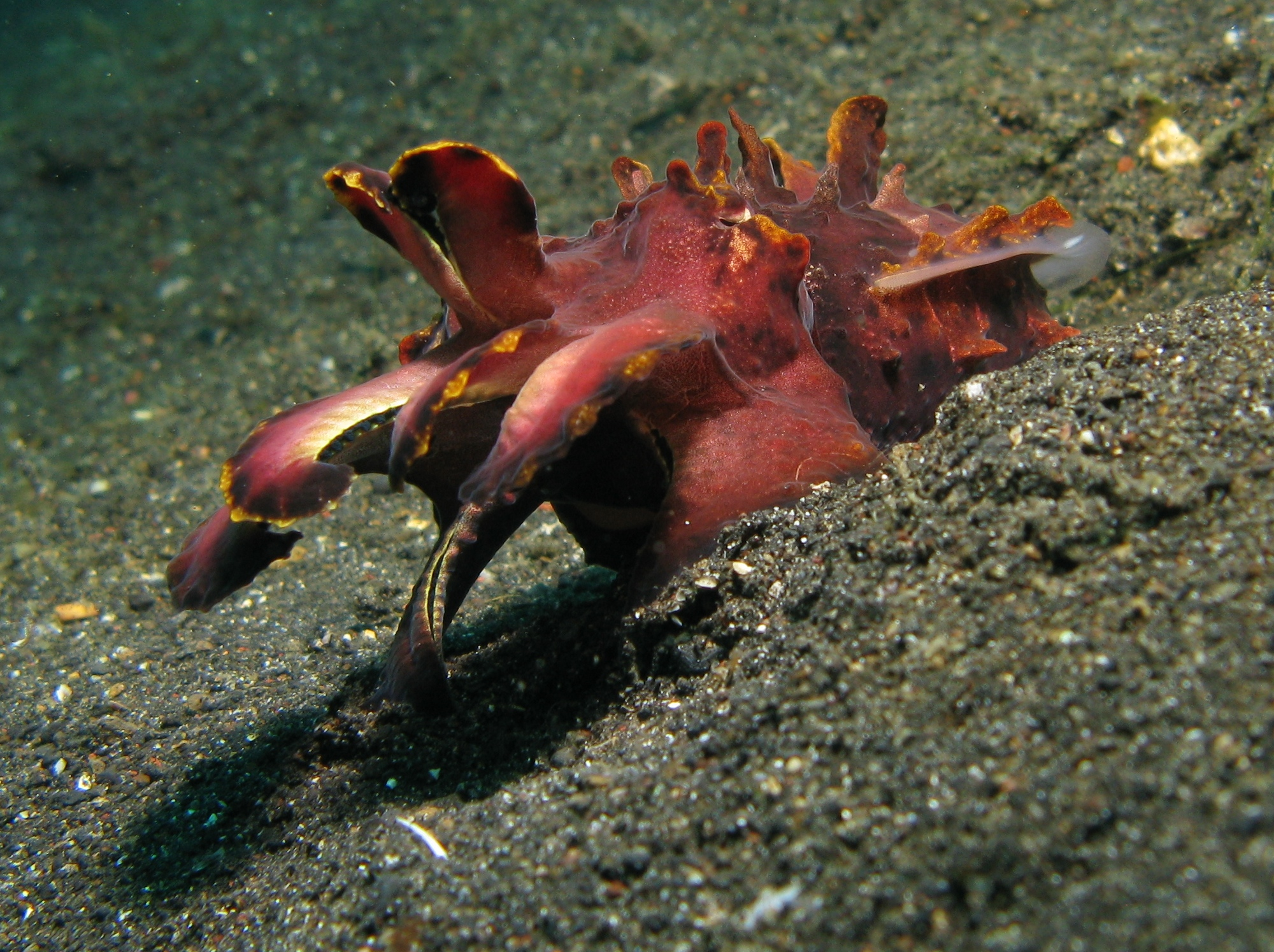 Flamboyant Cuttlefish